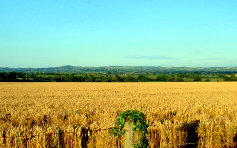 Image already in use by Wikipedia. Straightened image, enhanced color, and generally improved viewability. This file is licensed under Creative Commons Attribution ShareAlike 1.0 License